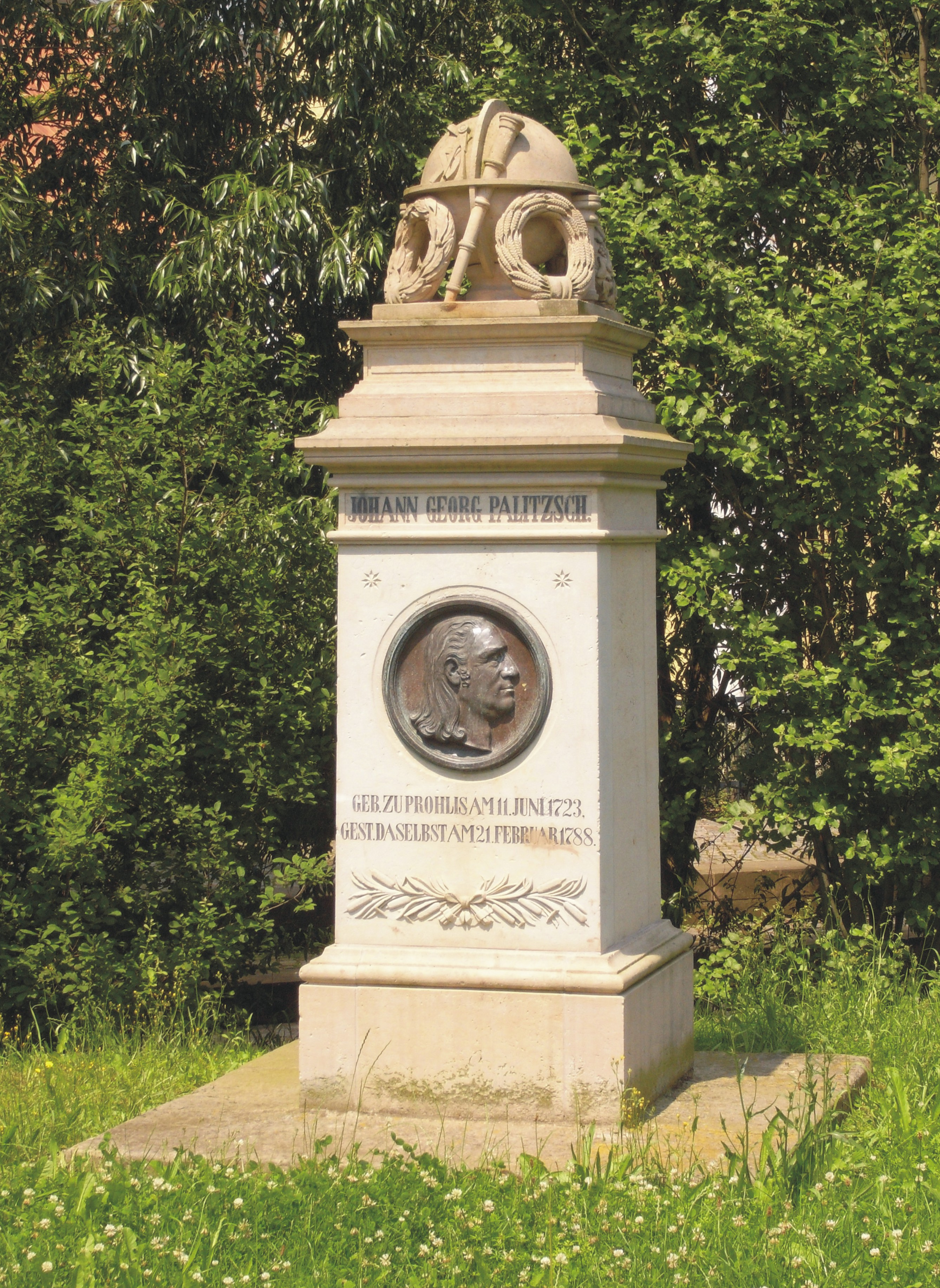 Palitzsch monument (Dresden, Saxony, Germany)